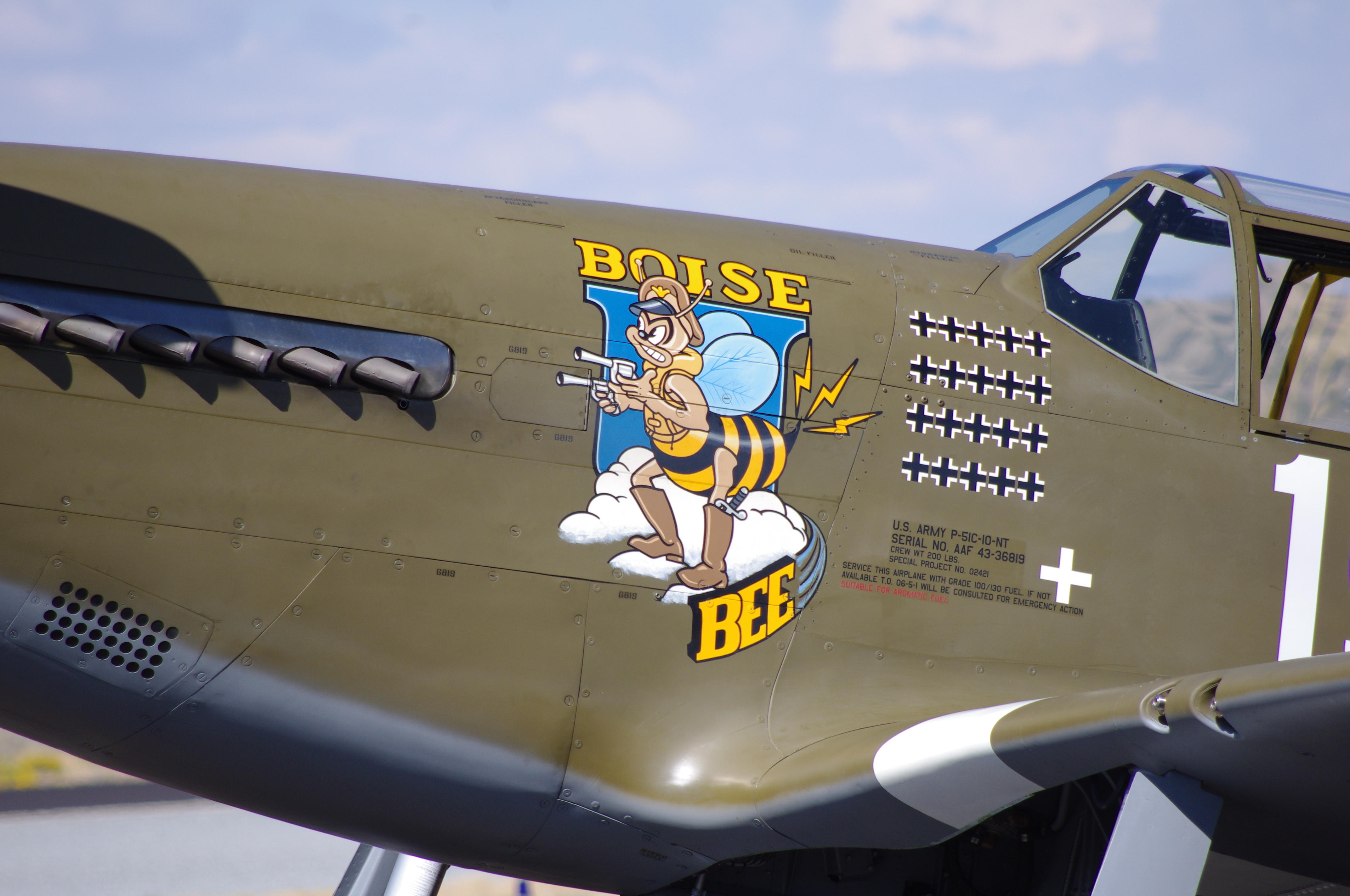 P-5C with nose art "Boise Bee" at the Reno Air Races 2011